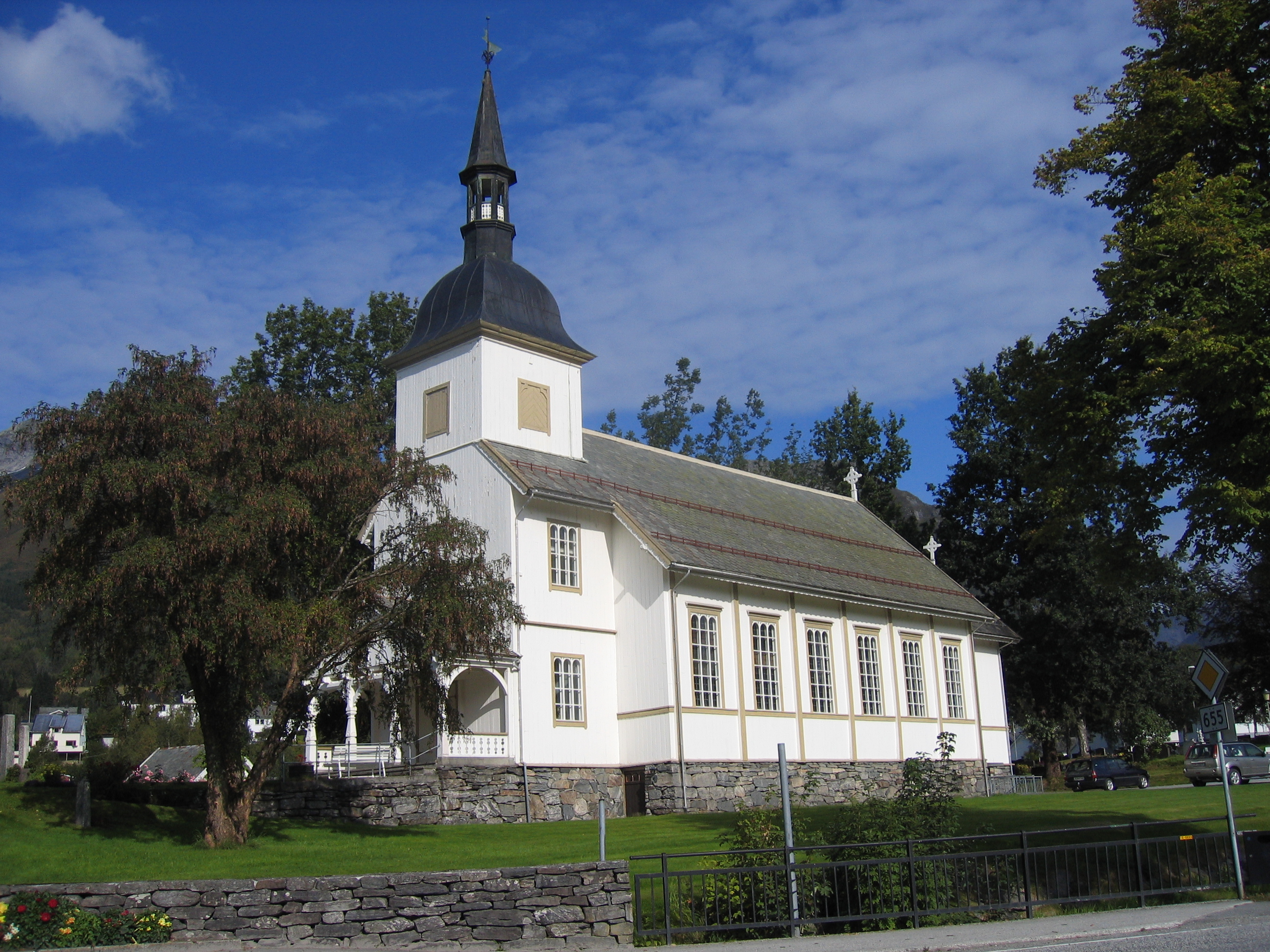 Ørsta kyrkje, Ørsta,Norway